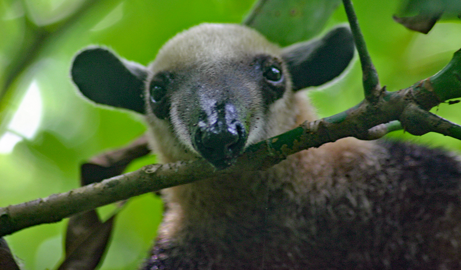 Anteater (Tamandua mexicana) from Corcovado NP, Costa Rica 2005, Brian Gratwicke